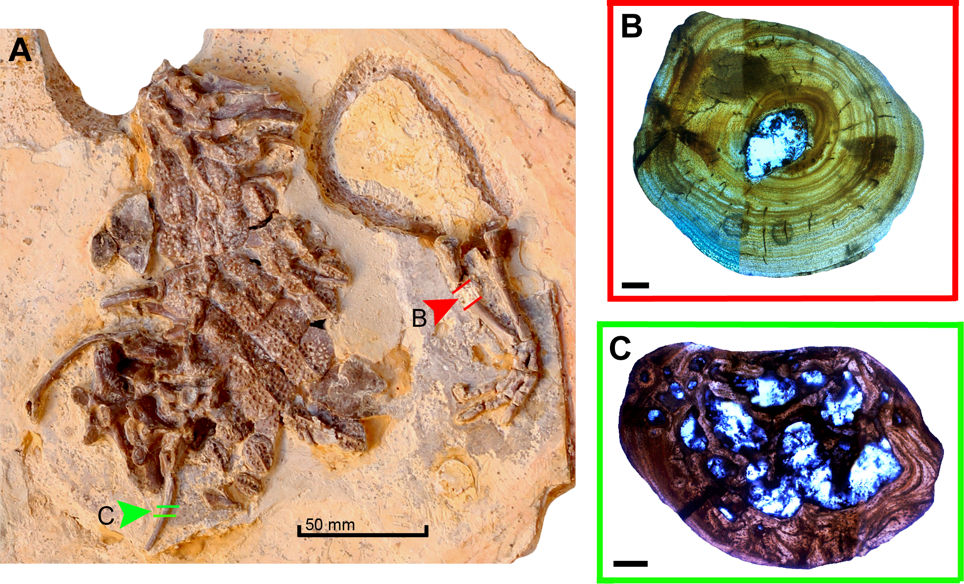 Sampled bones of Susisuchus anatoceps specimen MPSC R1136 with respective thin sections. (A) General view of the specimen. Red (marked B) and green (marked C) arrows (corresponding to rib and ulna respectively) indicate where the cut were made for the sample collection. (B) View of the cross section of the ulna. (C) View of the cross section of the rib. Scale bar 50 mm in A; 5 mm in B; C.